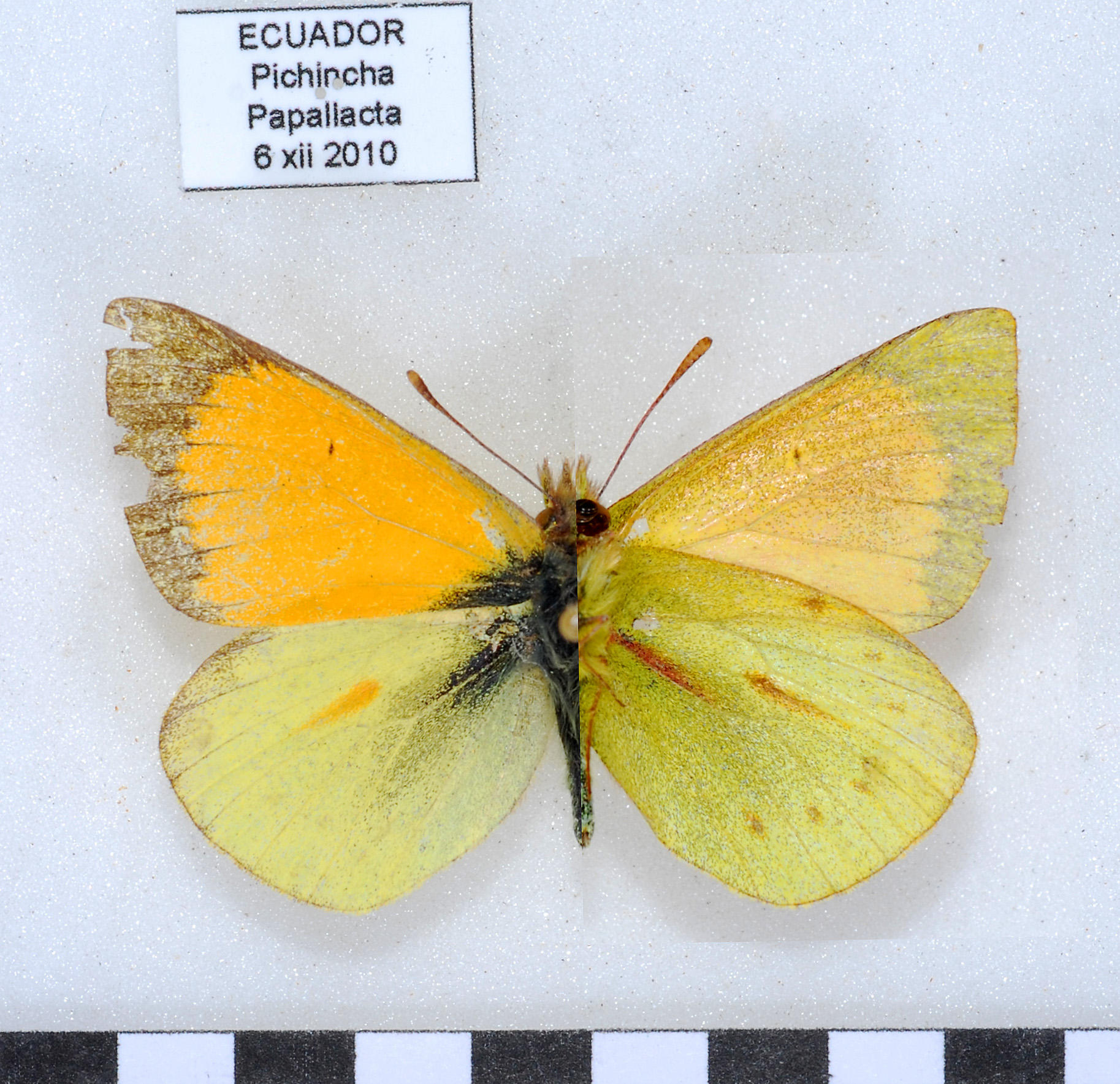 Colias dimera, male, set specimen, Ecuador, Papallacta, 3,300m, Alan Cassidy photo.